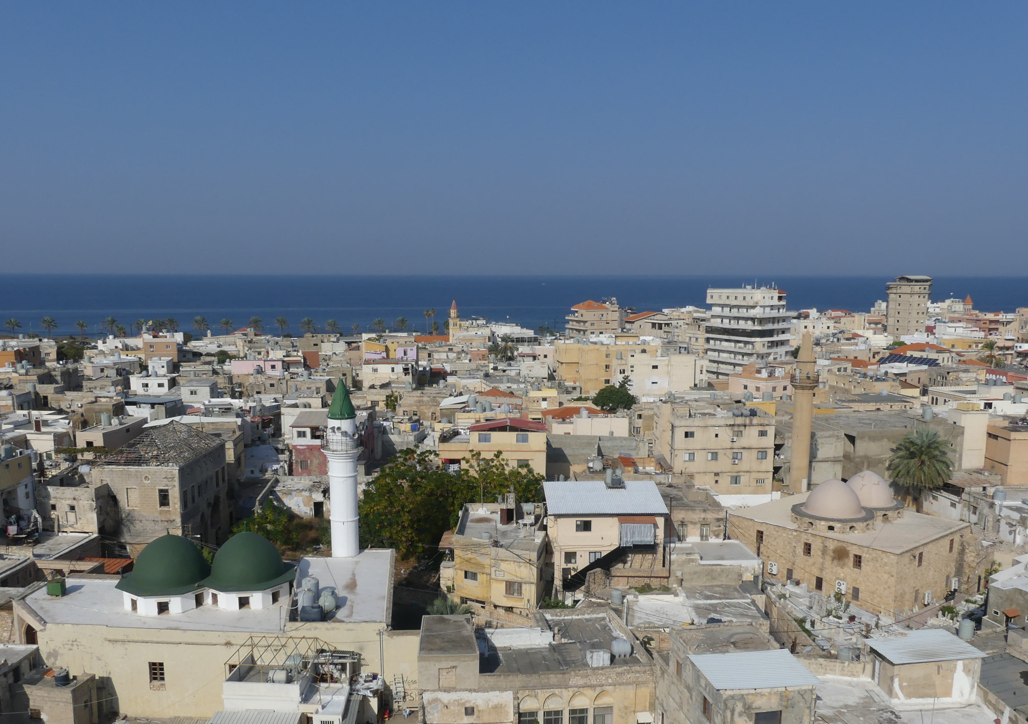 View westwards in Tyre/Sour, South Lebanon: The Sharafeddine Mosque (Shia, left) next to the Old Mosque (Sunna, right), with the Franciscan Church of the Holy Land (left) and the Maronite Catholic Cathedral "Our Lady of the Seas" (right) in the background